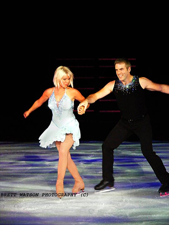 Kyran's Ice Party 2009 (c)BrettWatsonPhotography